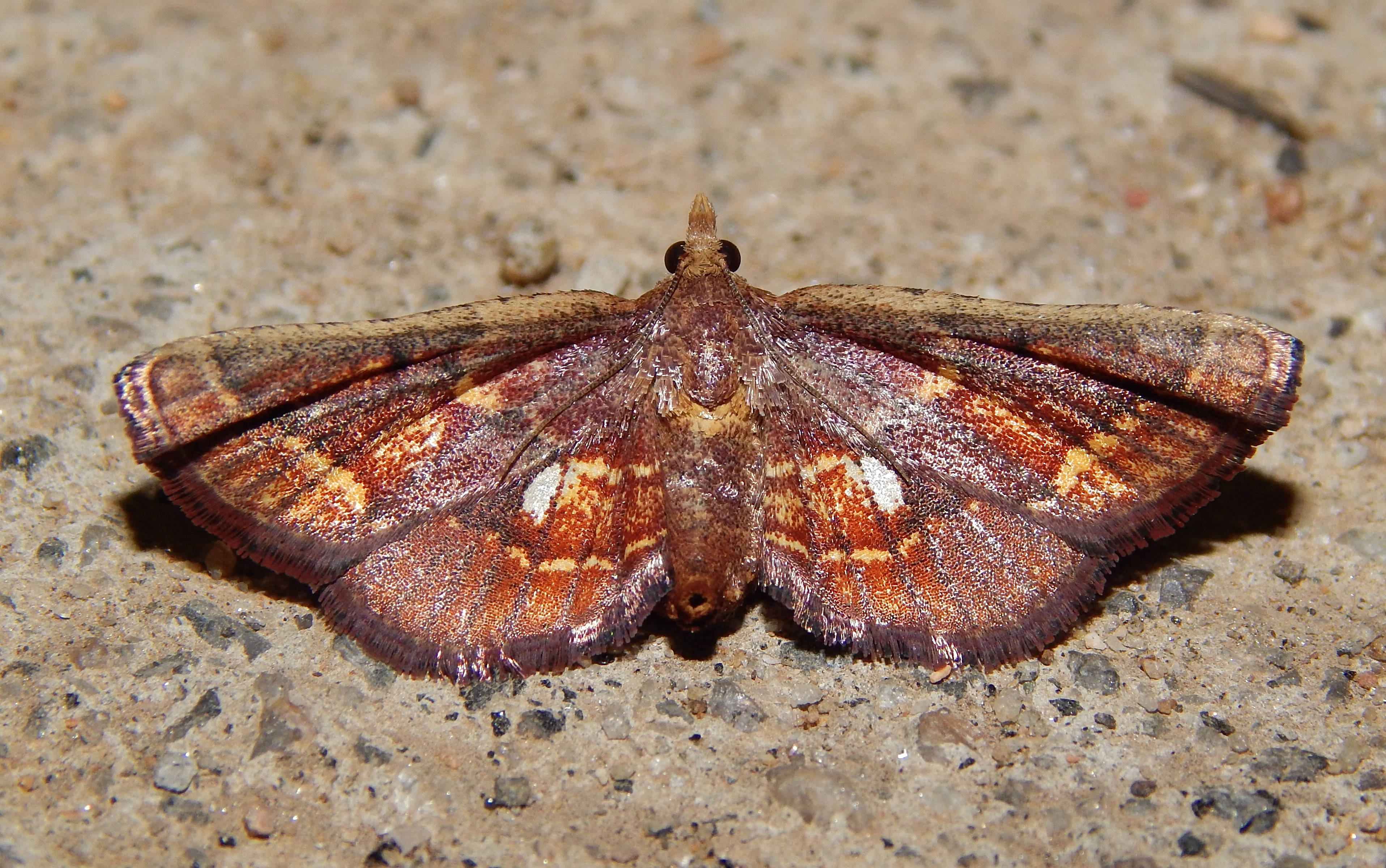 Zitha torridalis from Coorg, Western ghats of India